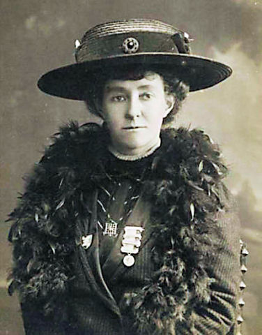 Portrait of Emily Davison, british suffragette, who ran in front of the King's horse at the 1913 Epsom Derby and was considered a martyr by her fellow suffragettes.